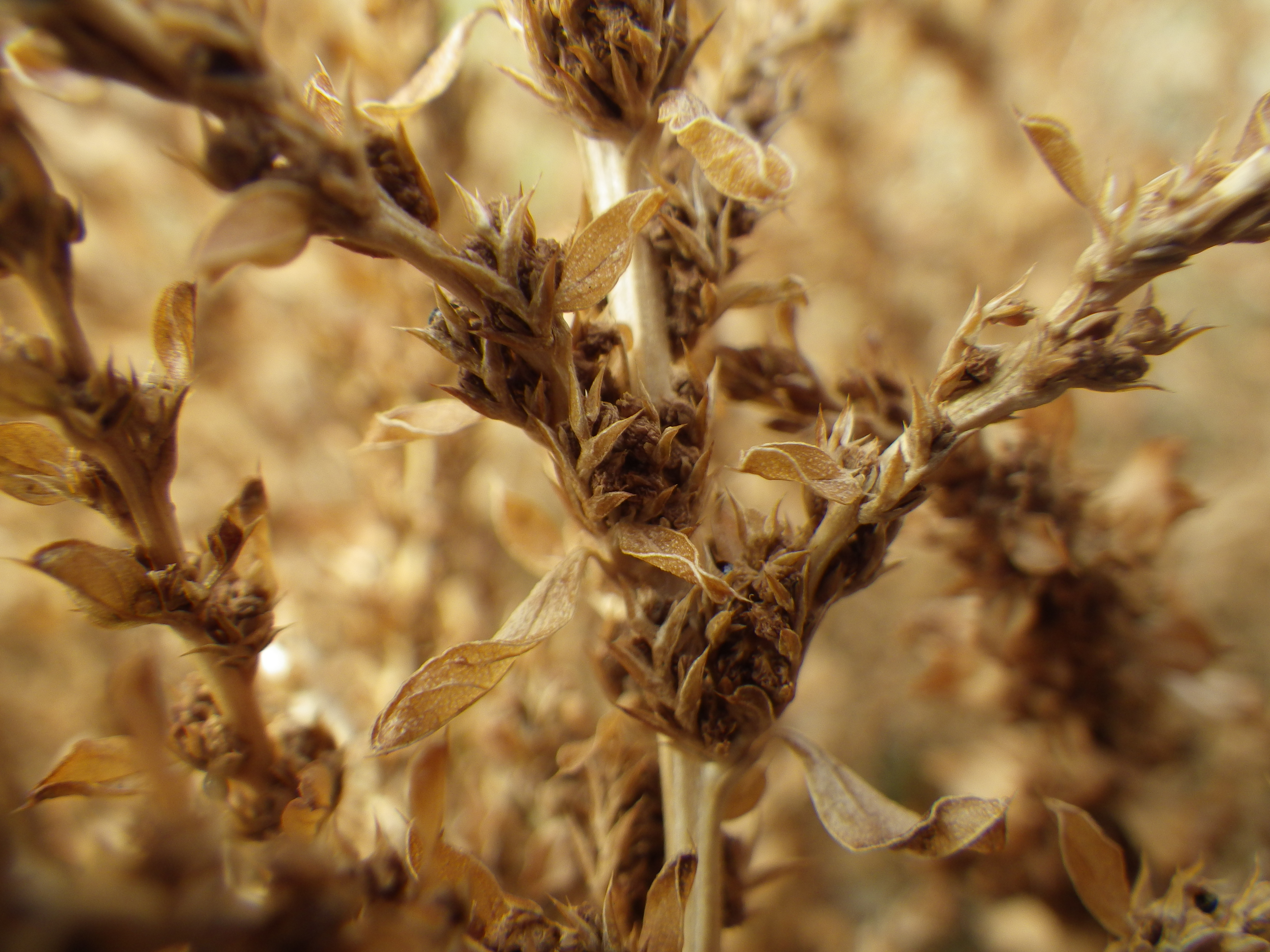 The flower bracts are much larger than the subtending sepals.